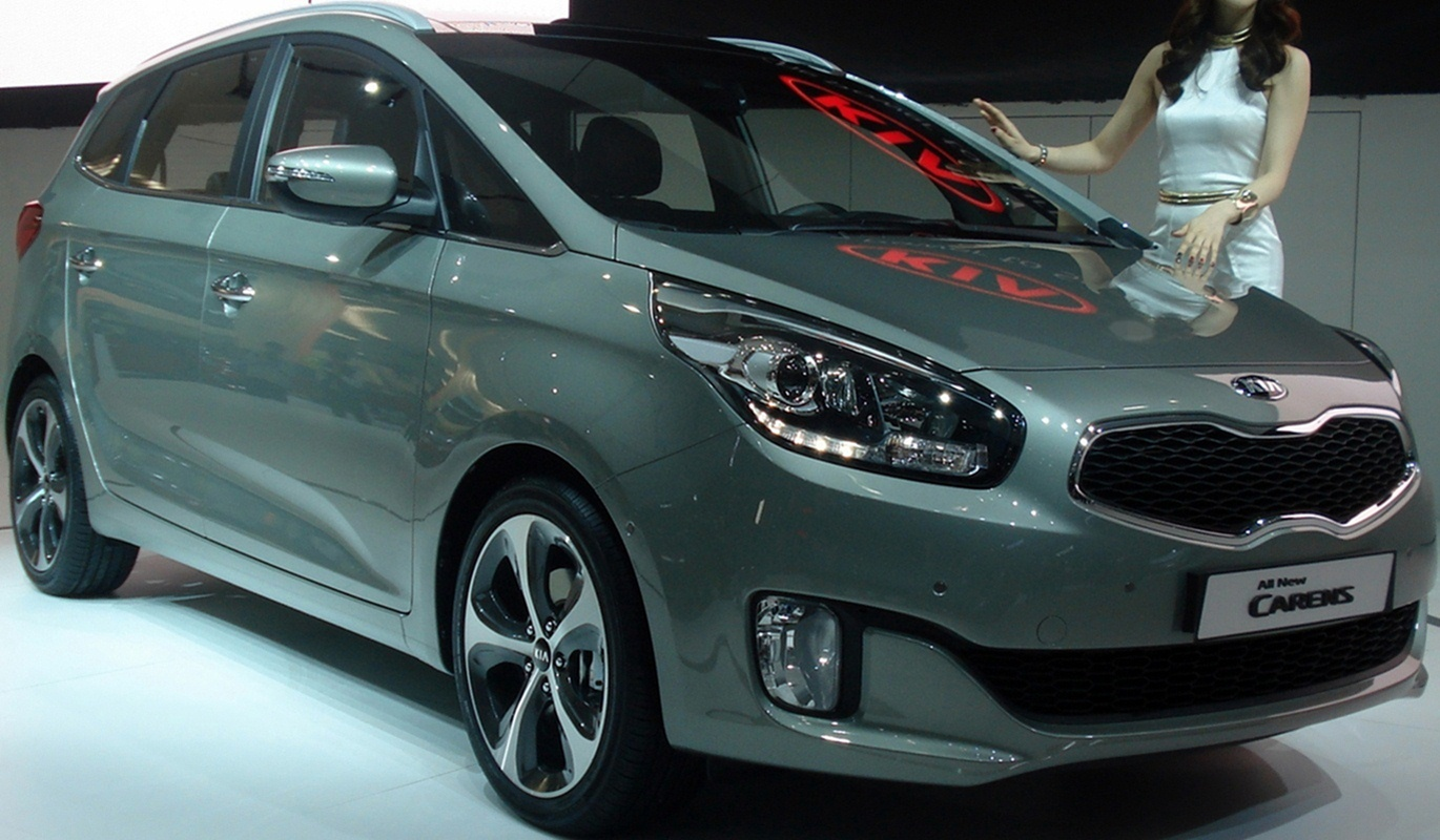 Kia All New Carens